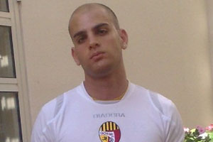 Picture of Shawn Tellus.